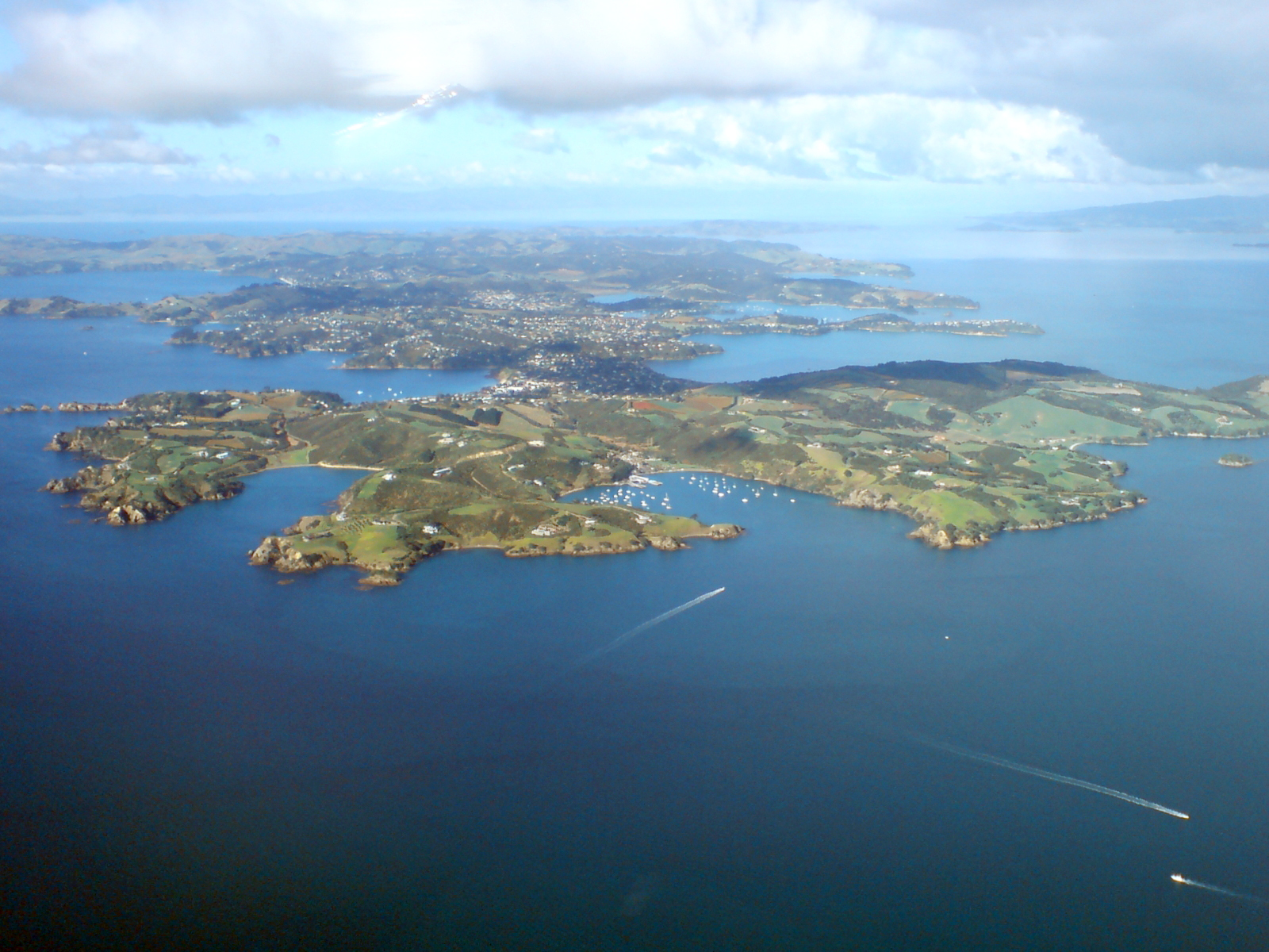 Waiheke Island, in the Hauraki Gulf of New Zealand, seen from a light airplane on the way to Great Barrier Island. Looking towards the east.